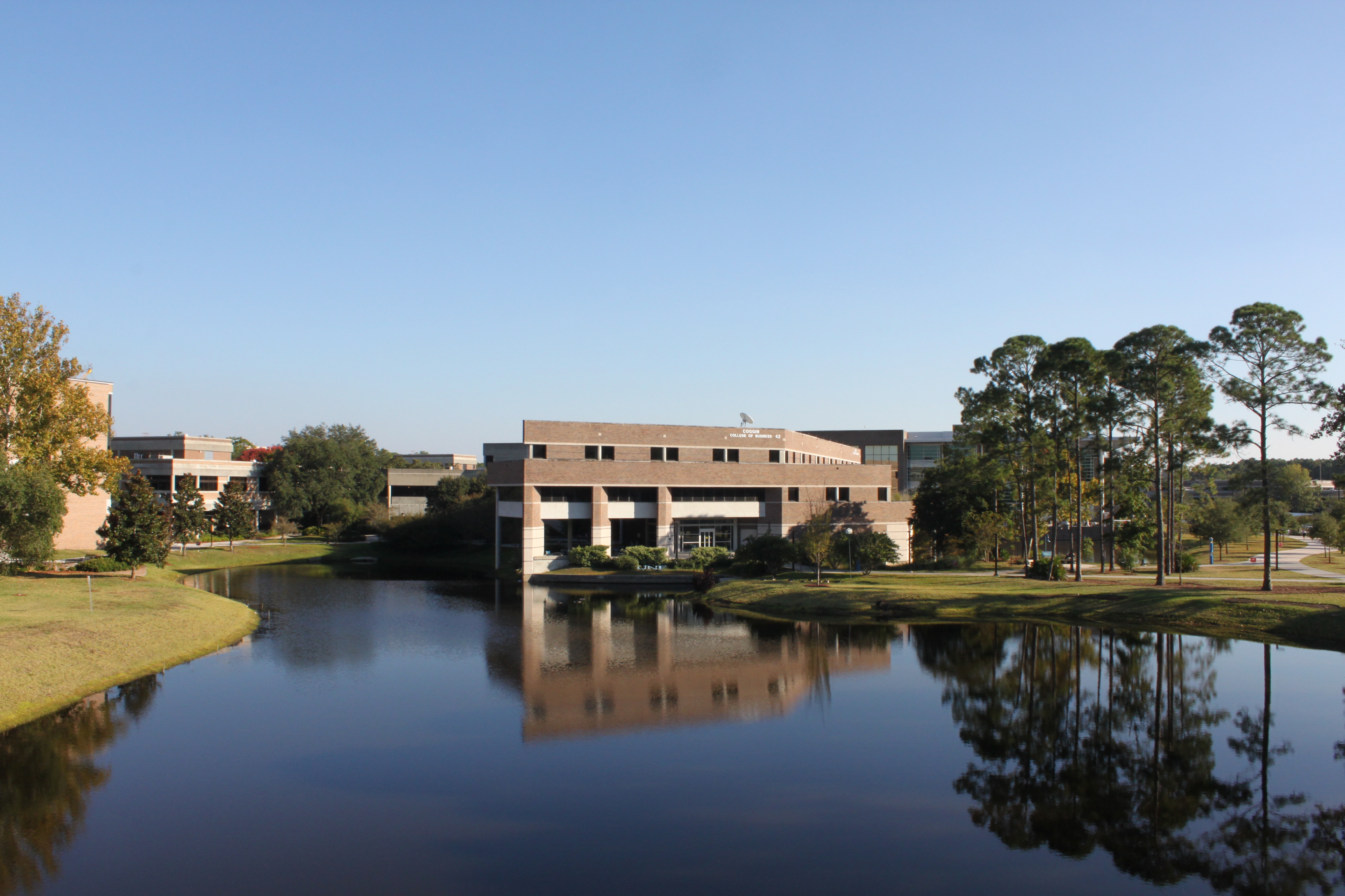 Coggin College of Business across a lake at UNF.